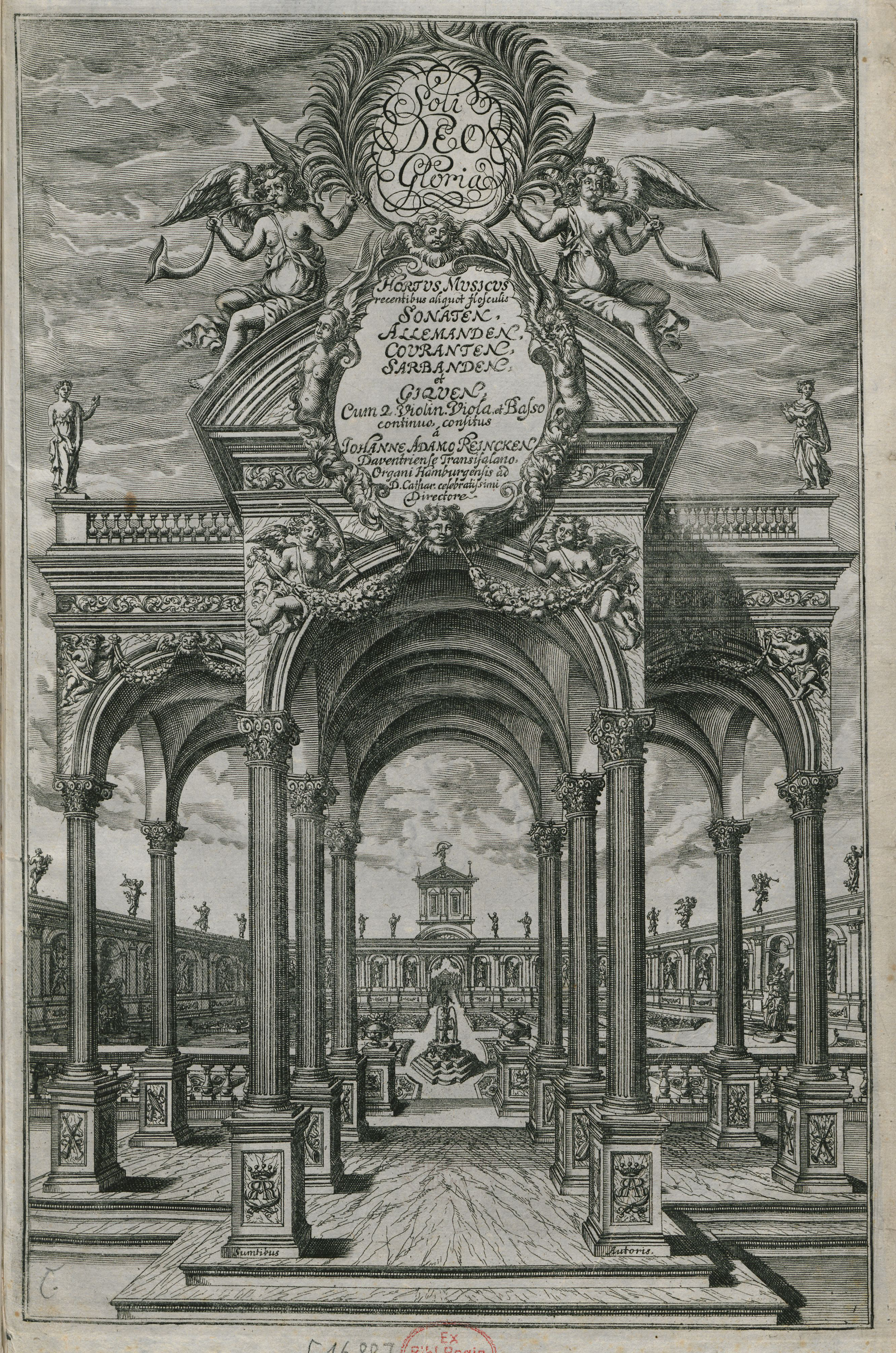 Title Page of Johann Adam Reincken's Hortus musicus